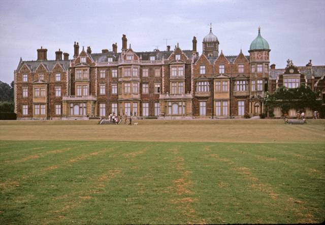 Sandringham House, Norfolk taken 1964 Sandringham is the much-loved country retreat of Her Majesty the Queen, and has been the private home of four generations of British monarchs. The house is perhaps the most famous stately home in Norfolk - and certainly one of the most beautiful. Set in the 60-acre gardens which have been called "the finest of the Royal gardens", with a fascinating museum of Royal vehicles and mementoes, the principal ground floor apartments with their collections of porcelain, jade, furniture and family portraits are open to the public from Easter to October.